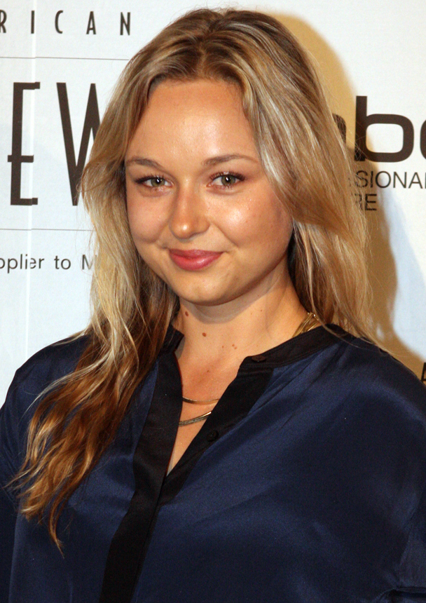 Teri Haddy at the Natasha Bedingfield Attends the 2013 Australian Hair Fashion Awards.